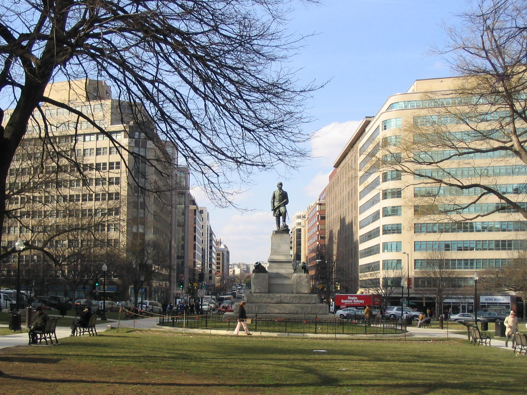 Farragut Square in downtown Washington, D.C., seen from the southeast corner of the square. Taken by User:Erifnam on Feb. 23, 2005.